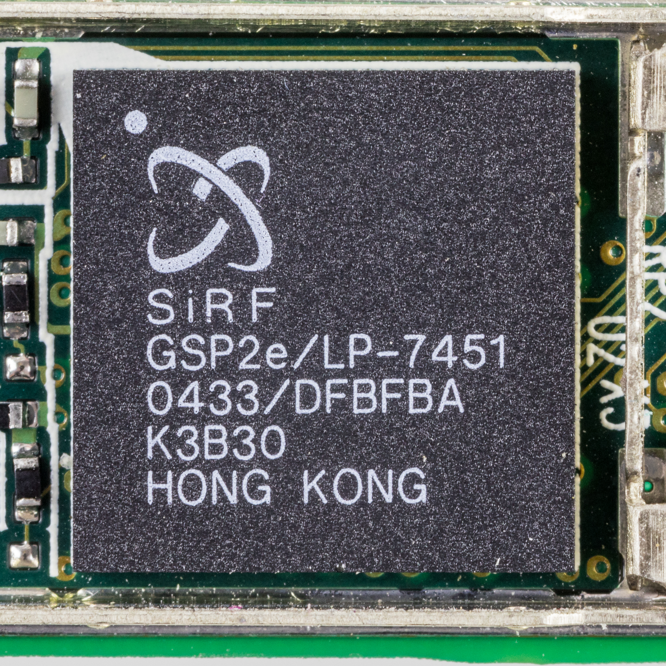 Typhoon MyGuide 3500 mobile - GPS module - SiRF GSP2e/LP-7451 - SiRFstarIIe/LP Chip Set